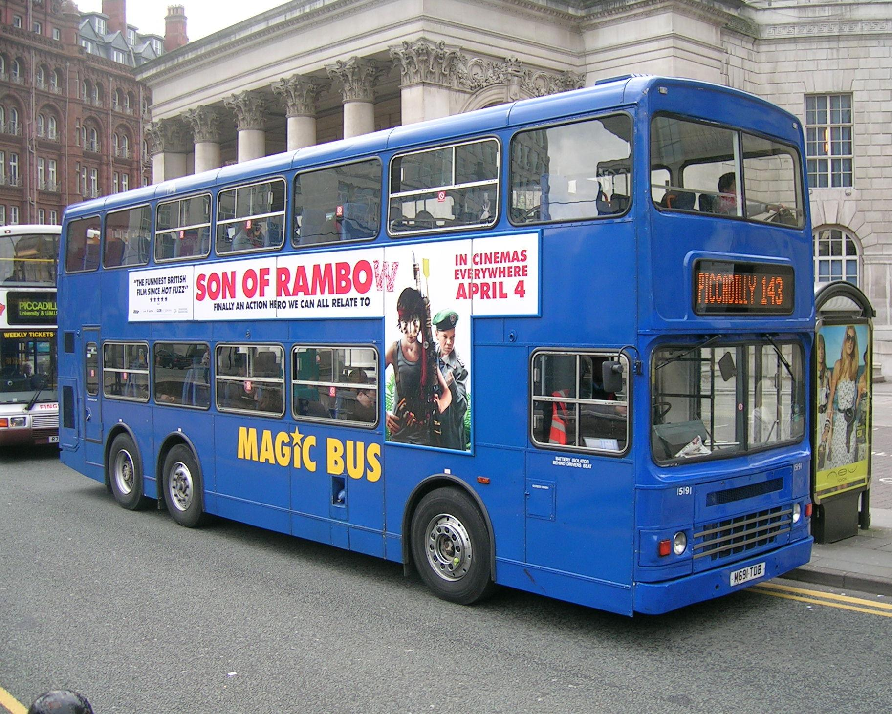 Stagecoach Manchester bus 15191 (reg. M691 TDB), a late 1990s Dennis Dragon double-decker with Duple Metsec bodywork, pictured in St Peter's Square, Manchester city centre. It's branded for and operating one of the company's low-cost Magic Bus routes, the 143 to Piccadilly bus station. It's a high capacity tri-axle bus, one of a fleet of 20 such buses originally delivered to Stagecoach's operation in Kenya but imported to the UK a short while later. See Second-hand Kenyan tri-axle buses imported to the United Kingdom for full details.